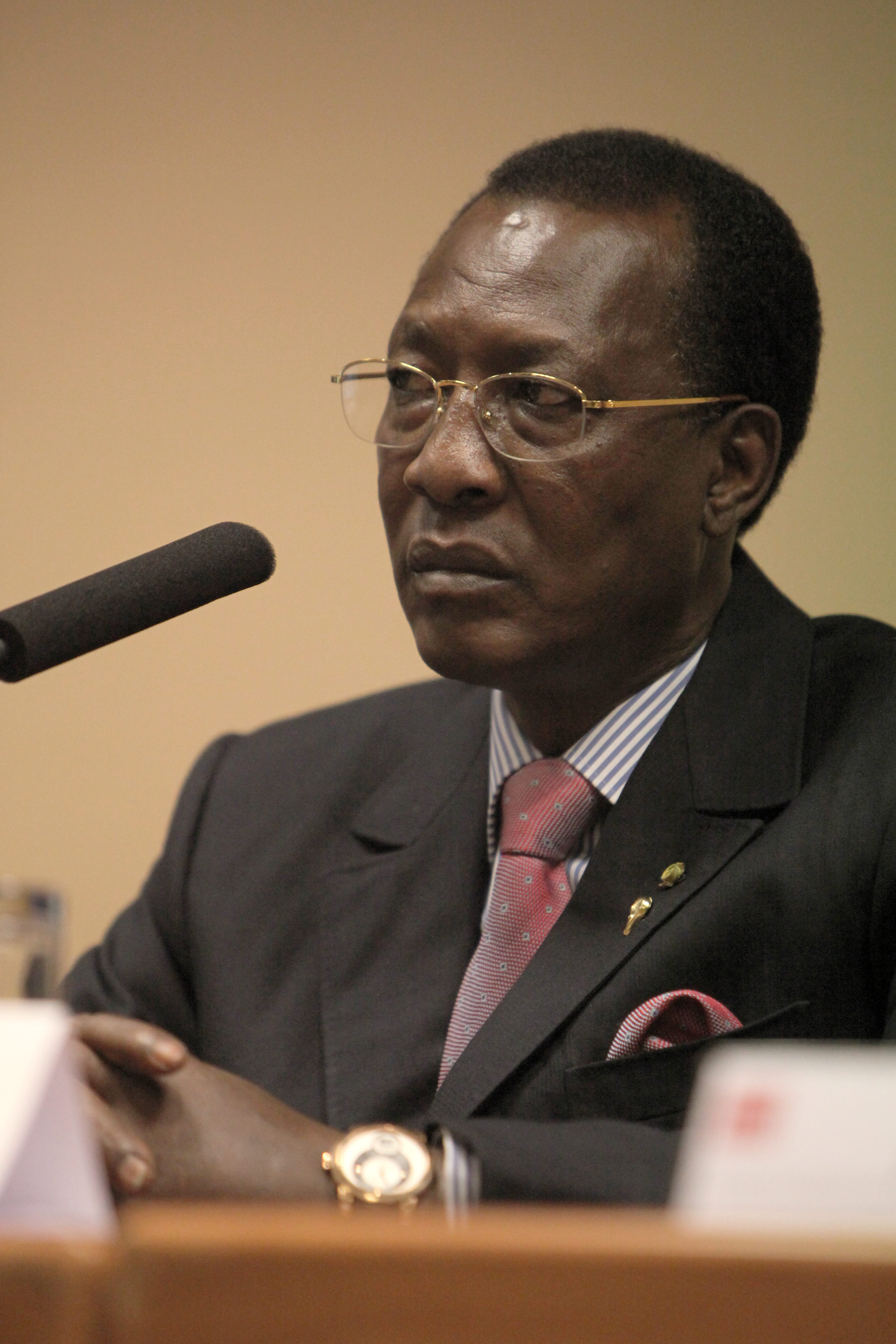 Idriss Déby at the 6th World Water Forum